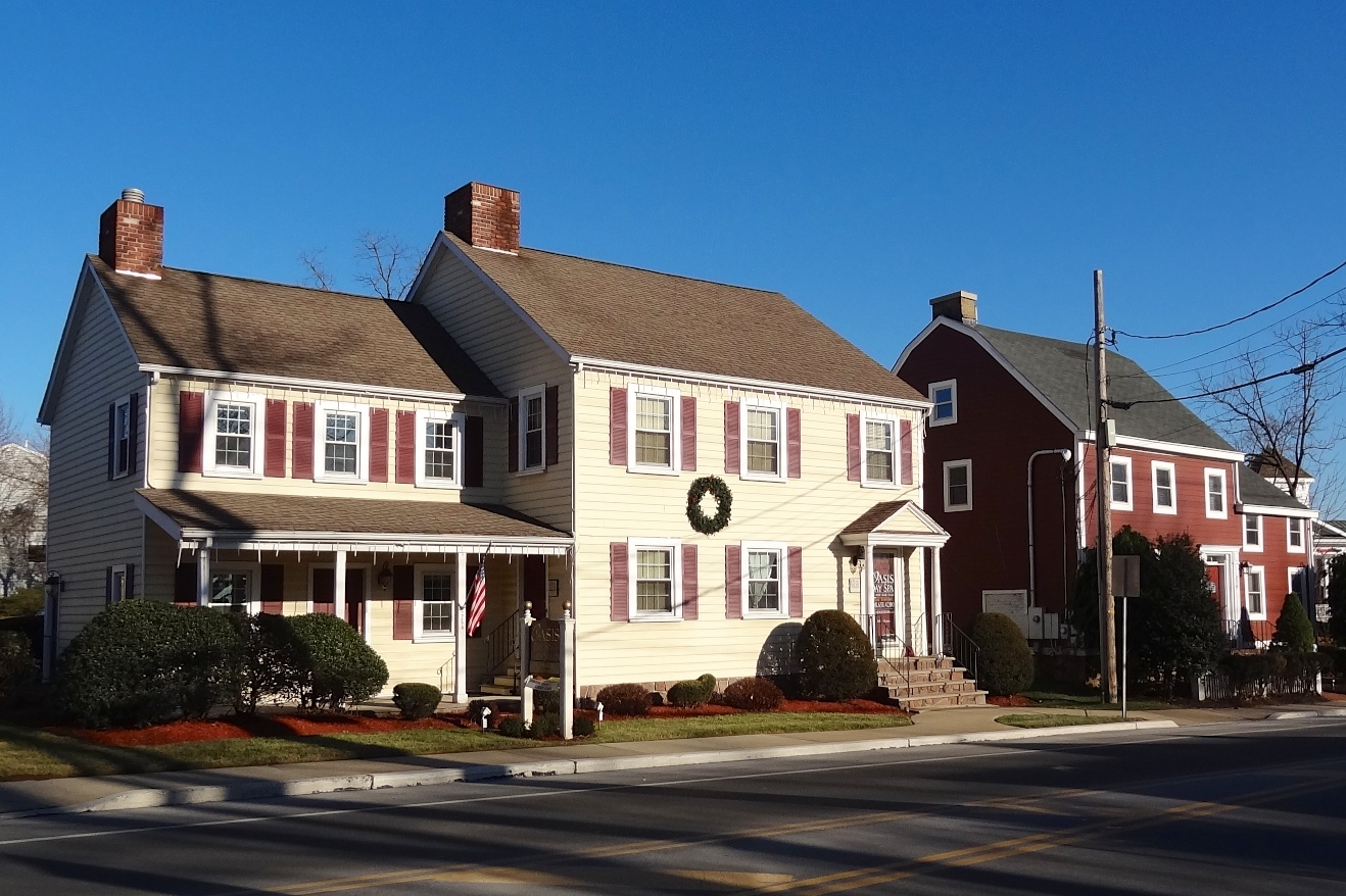 Three historic houses in Pluckemin, NJ. From the left: Daughaday House, Strupp House, and McKiernan House.